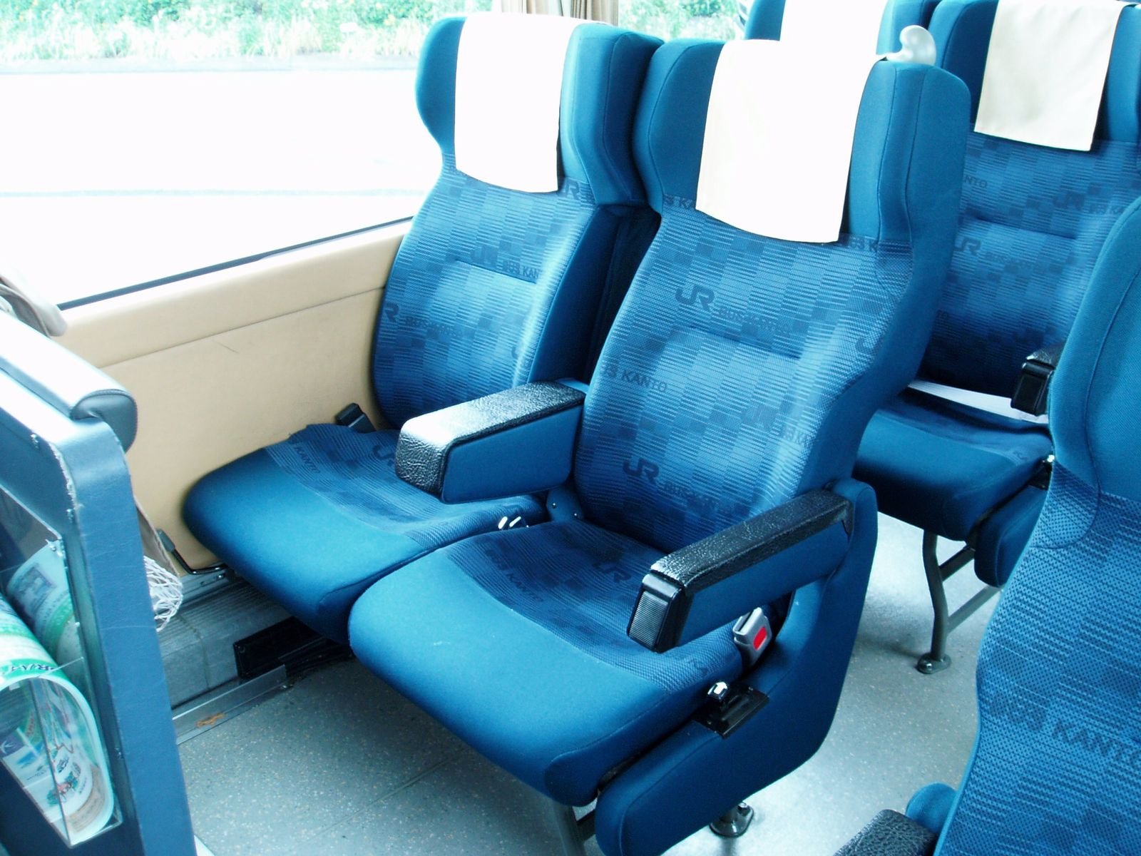 "Rakuza-seat" inside of "Premium Coach" JR Bus Kanto H651-04420